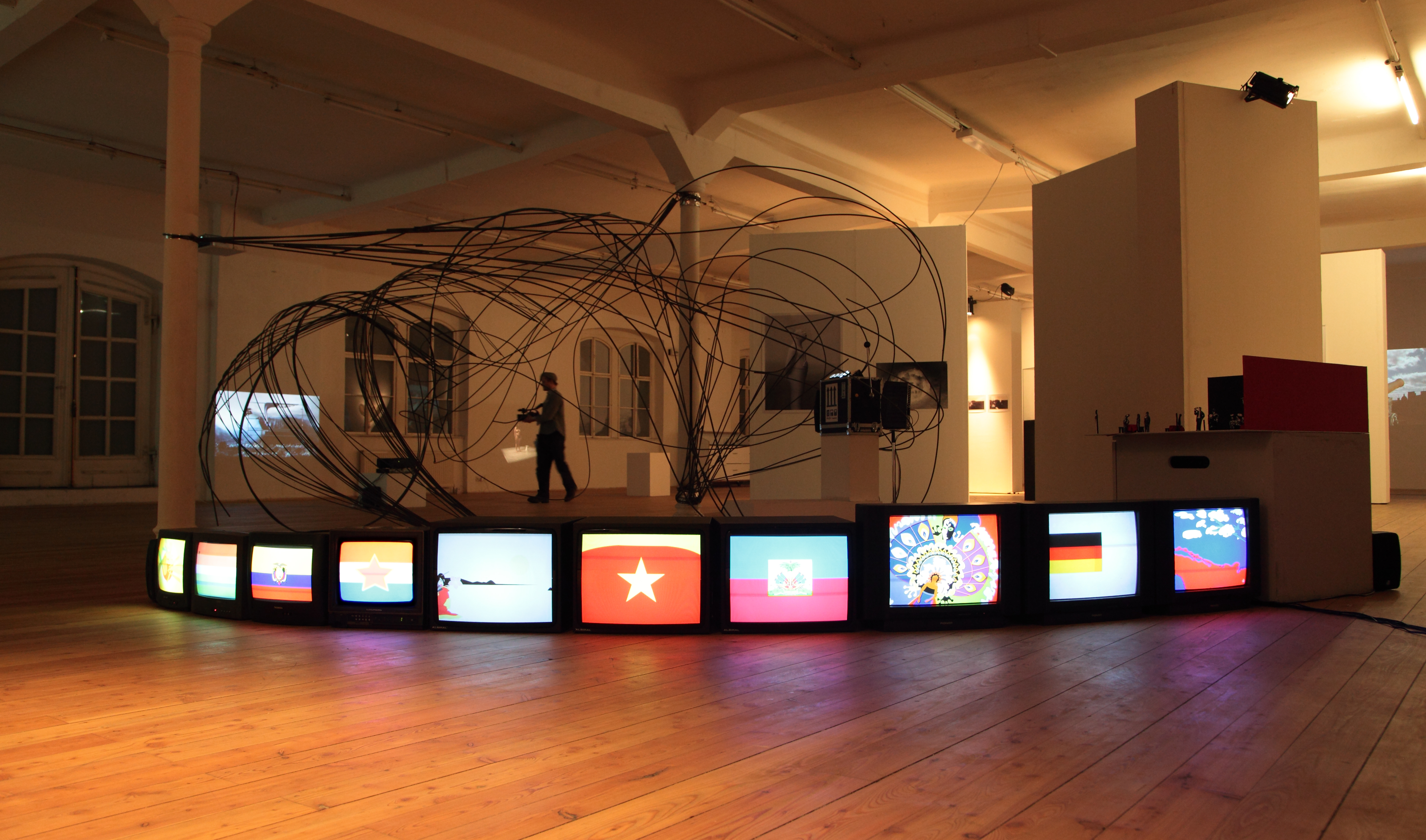 Kunsthalle Exnergasse, art association and exhibition space at WUK, Vienna, Austria. View of the exhibition 'Songs of the Swamp', January 2011. Curator: Hilary Koob-Sassen. On the monitors in the foreground: animation project Flag Metamorphoses.